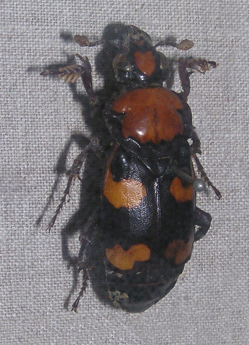 Nicrophorus americanus, on display in Saint Petersburg Zoology Museum, Russia.